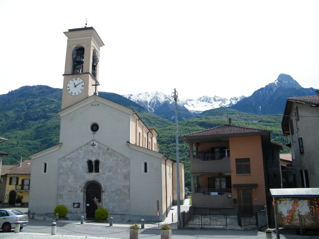 Church of St Stephen. Cemmo, Capo di Ponte, Val Camonica